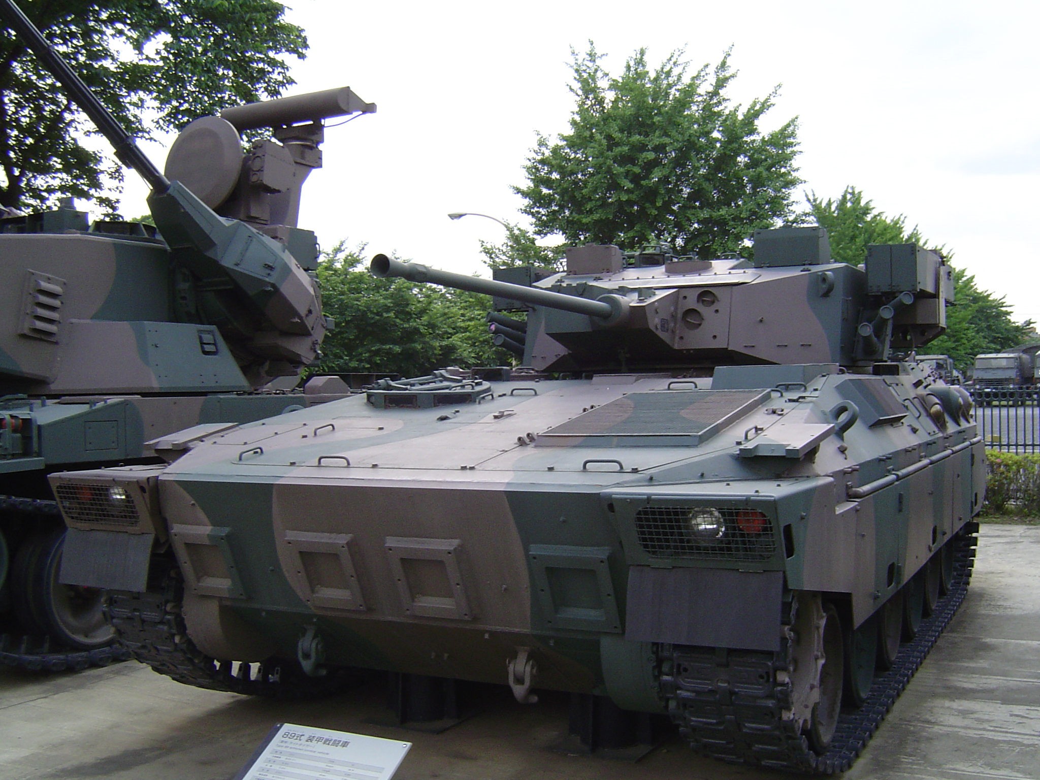 IFV type 89 of JGSDF at JGSDF PI center. As it is a exhibition, this vehicle in the photo doesn't have guns and missiles. ja:89式装甲戦闘車